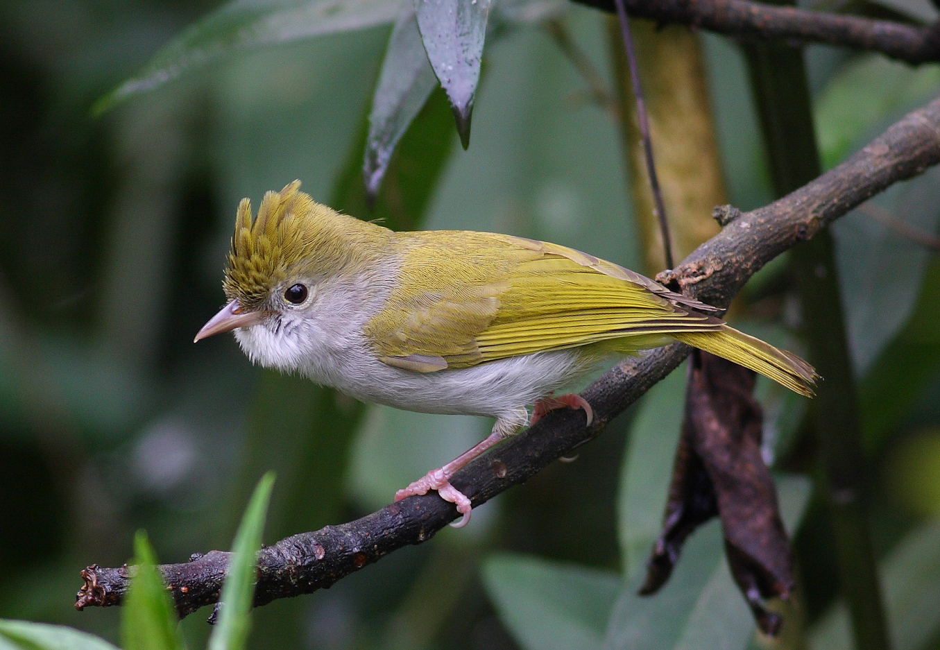 White-bellied Yuhina (Erpornis zantholeuca)